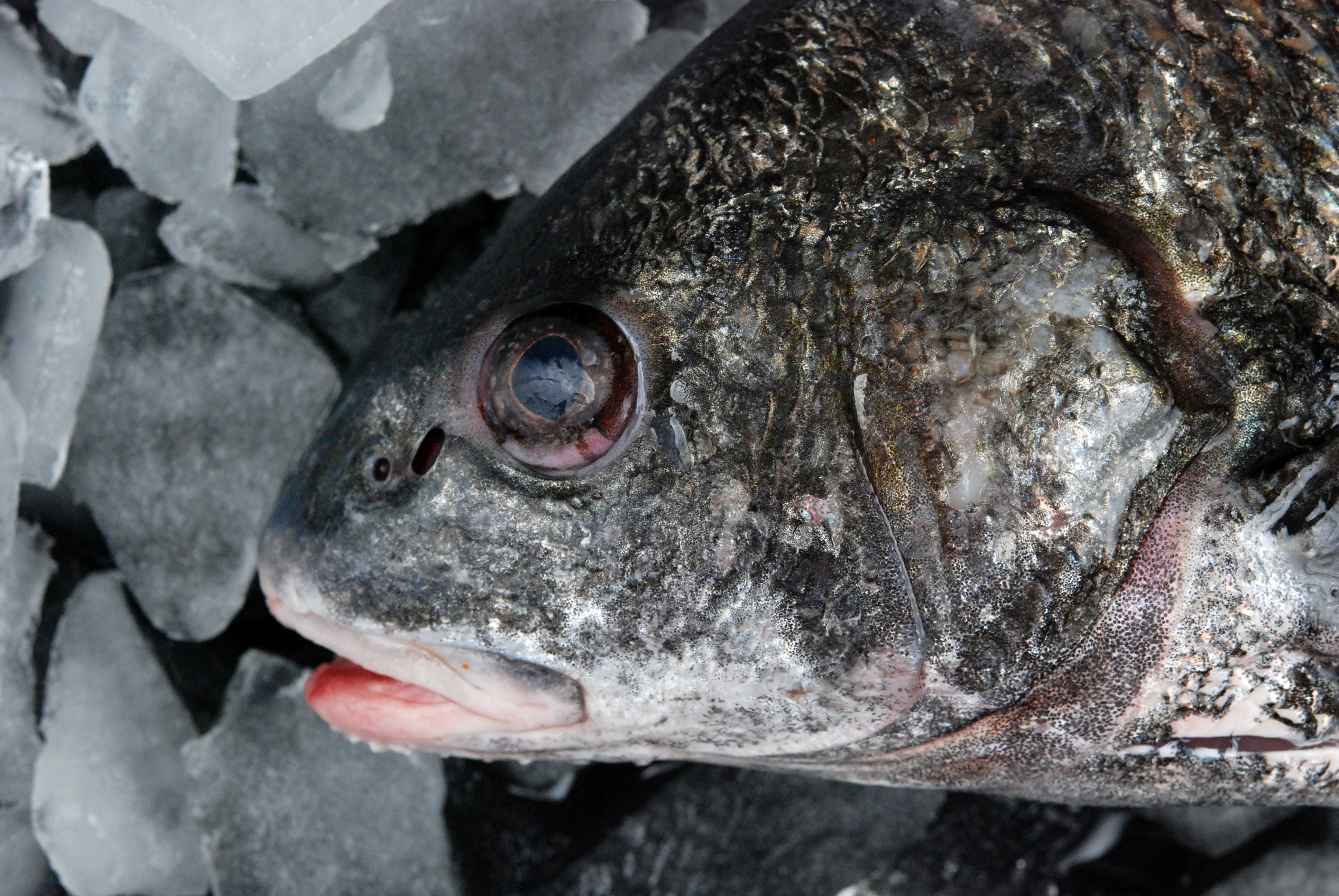 Schwarzer Trommler (Pogonias cromis)